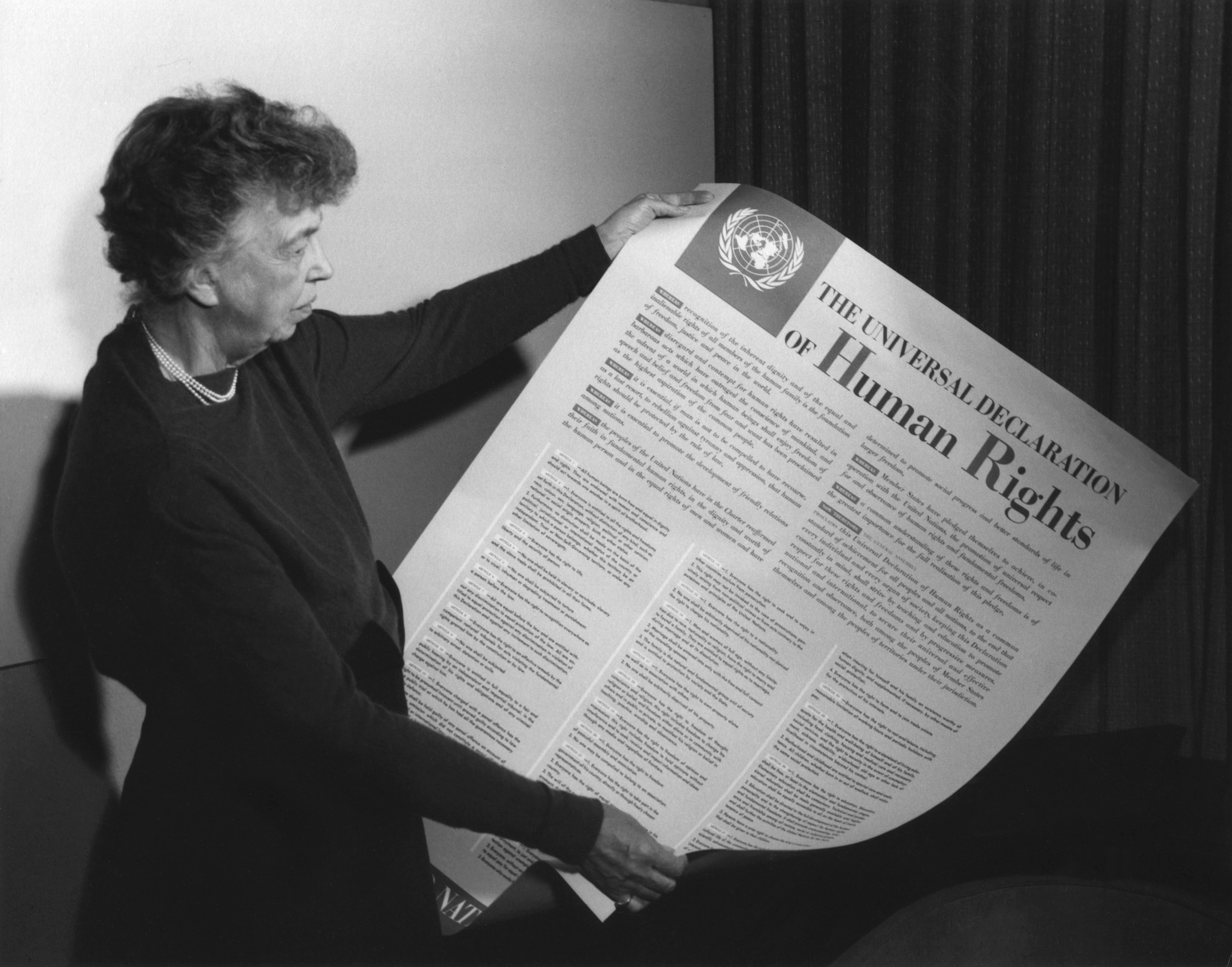 Eleanor Roosevelt holding poster of the Universal Declaration of Human Rights (in English), Lake Success, New York. November 1949.